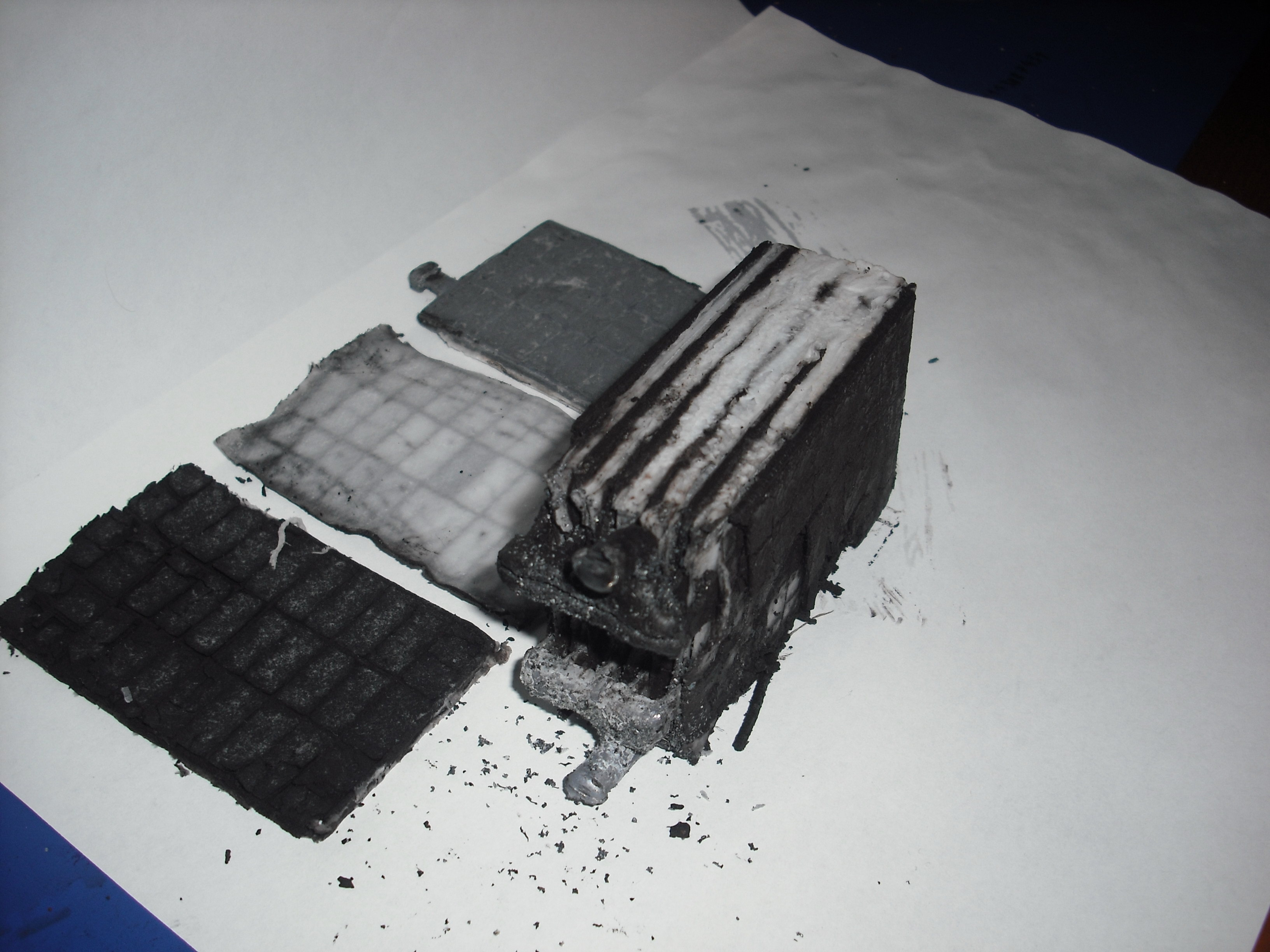 Inside AGM lead acid battery. From left: positive plate, glass mat separator, negative plate. On the right is one complete cell showing multiple plates in parallel.